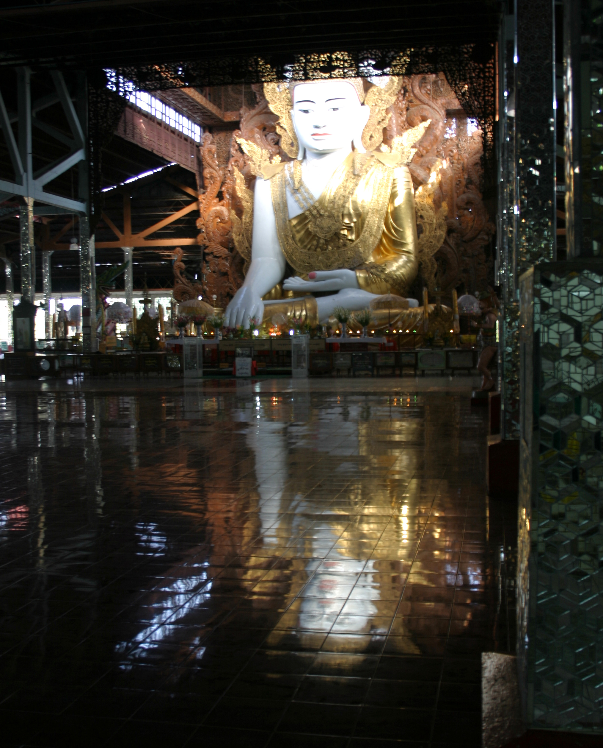 Ngahtatgyi temple in Yangon in Myanmar